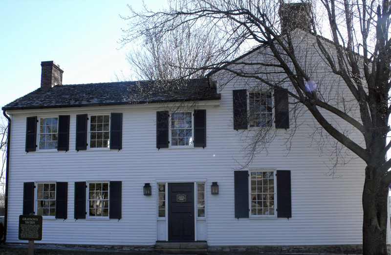 A replica of Grayson's Tavern at Constitution Square State Historic Site in Danville, Kentucky